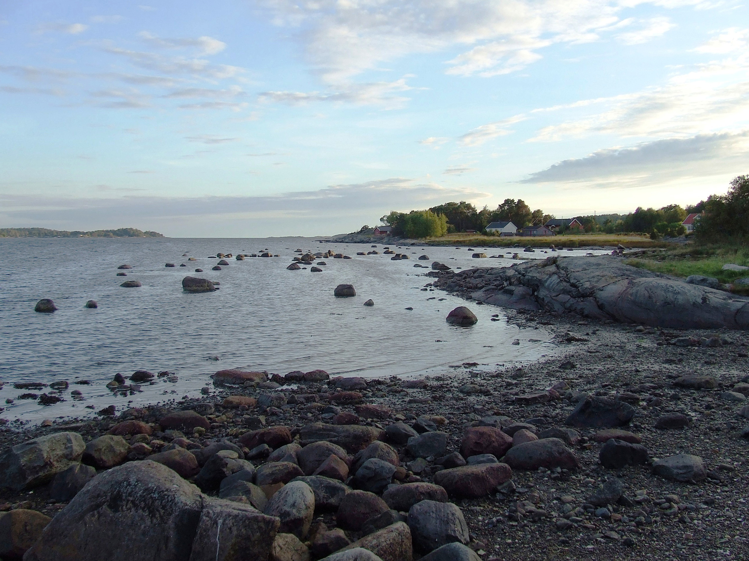 Kurefjorden bay